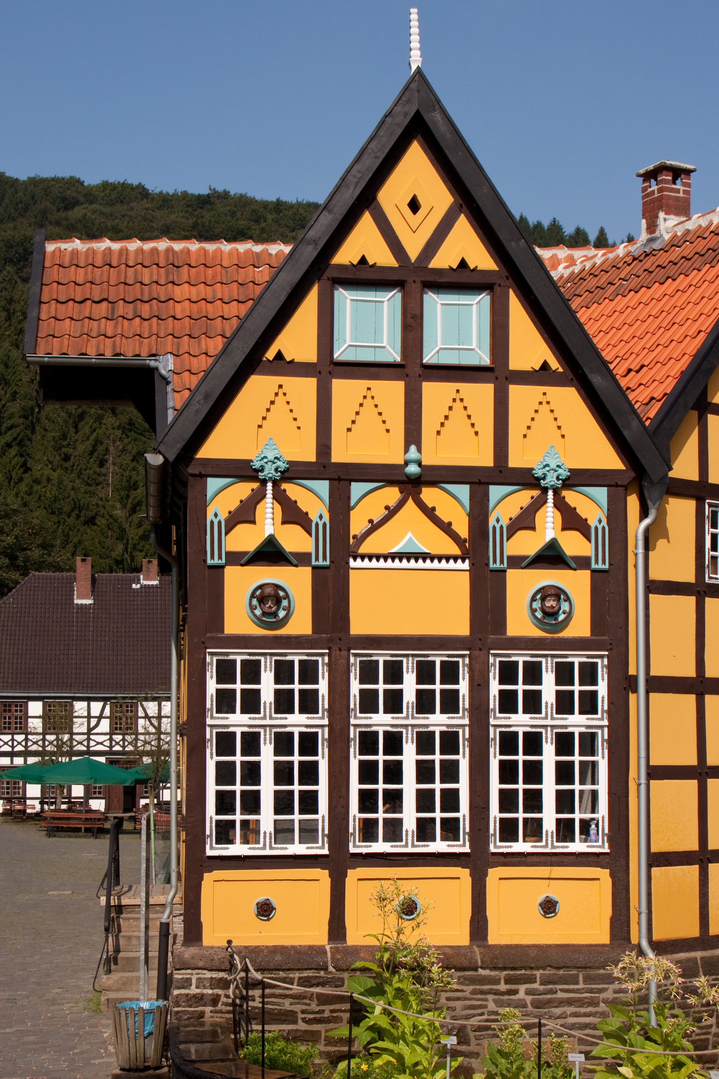 Hagen (Germany): the LWL open air museum (Westfälisches Landesmuseum für Handwerk und Technik), Tabaco factory